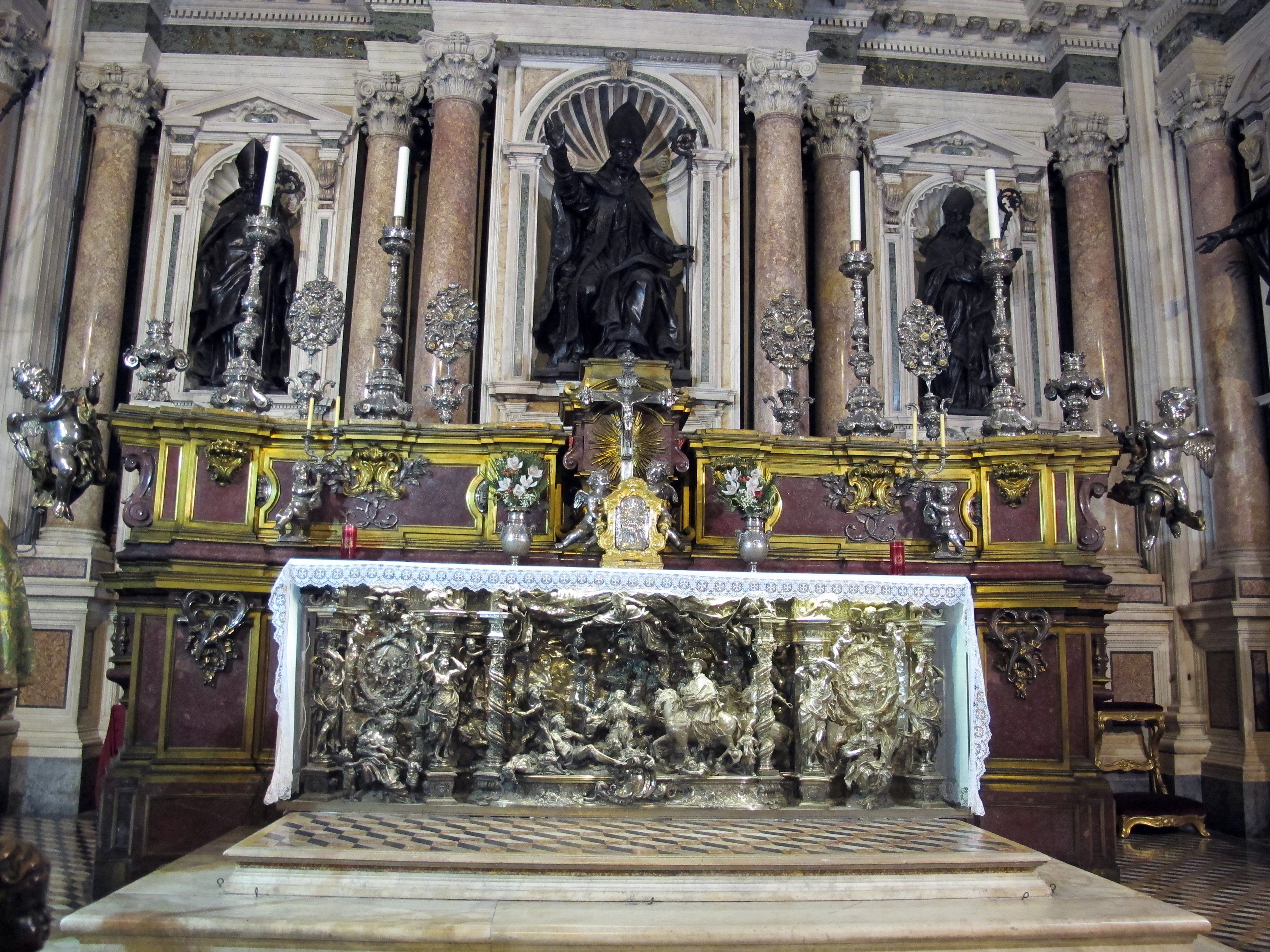 Cathedral (Naples) - Cappella di San Gennaro